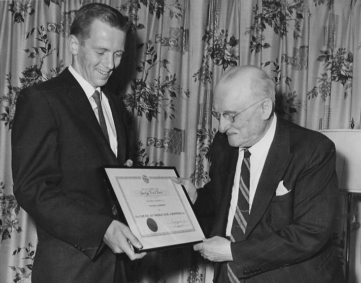 George Foss becoming an Honorary Member - Vintage Automobile Club of Montreal